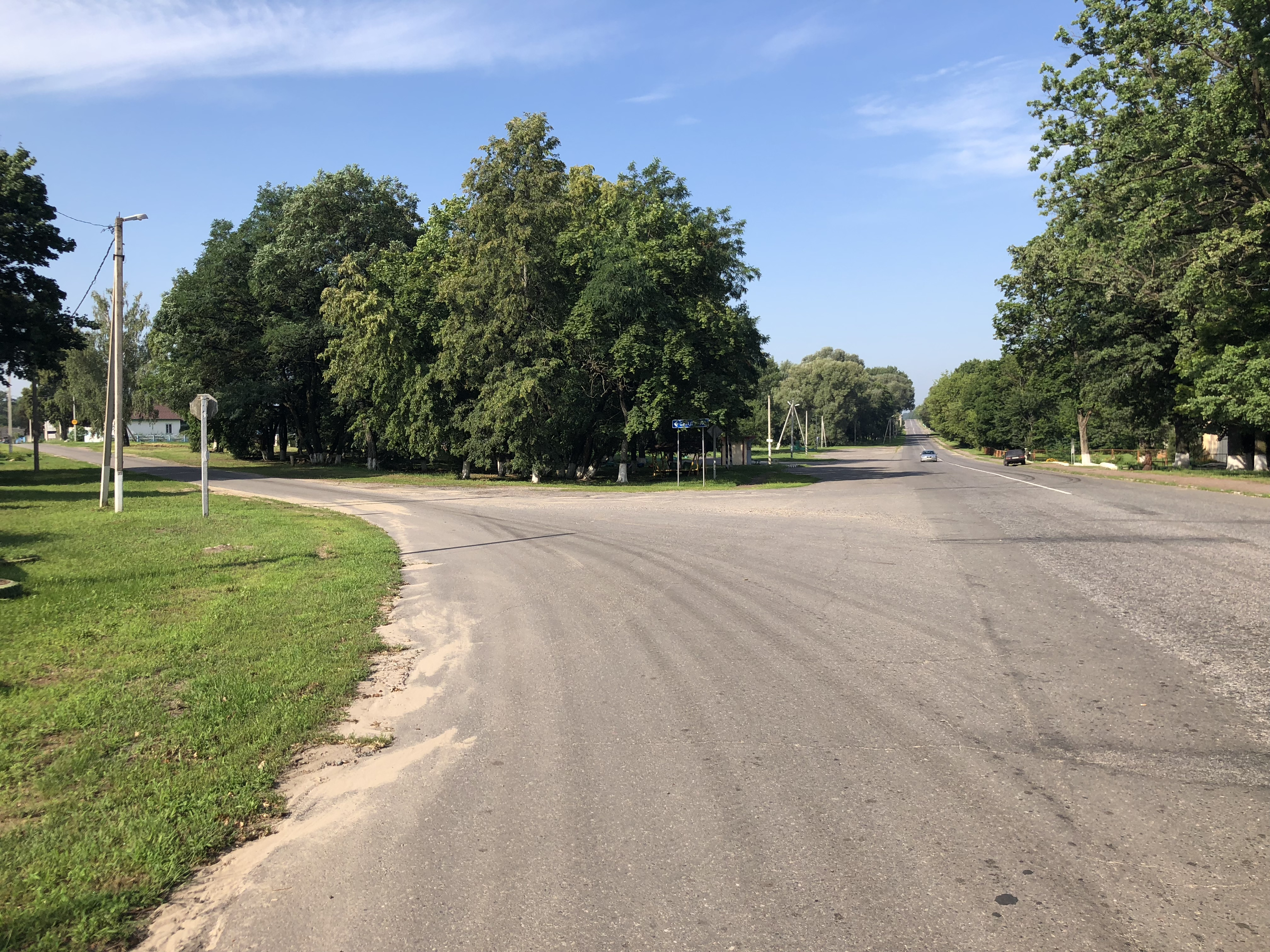 Borschevka Retchitsa Region 2018 july